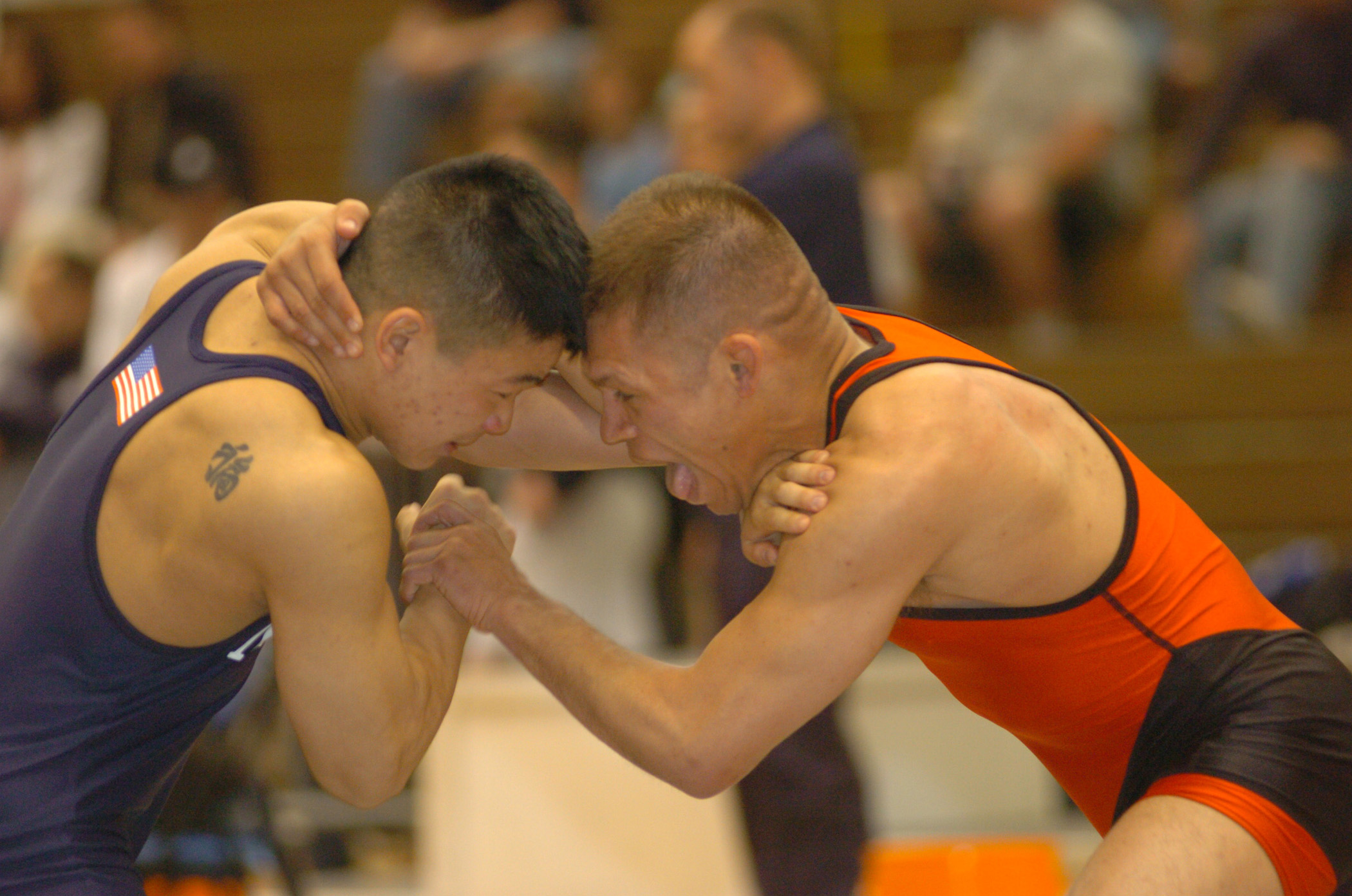 Army Capt. Eric Albarracin (right) wrestles for a gold medal in the 55-kilogram/121-pound freestyle division of the 2005 Armed Forces Wrestling Championships at the U.S. Olympic Training Center in Colorado Springs, Colo. Photo by Tim Hipps.